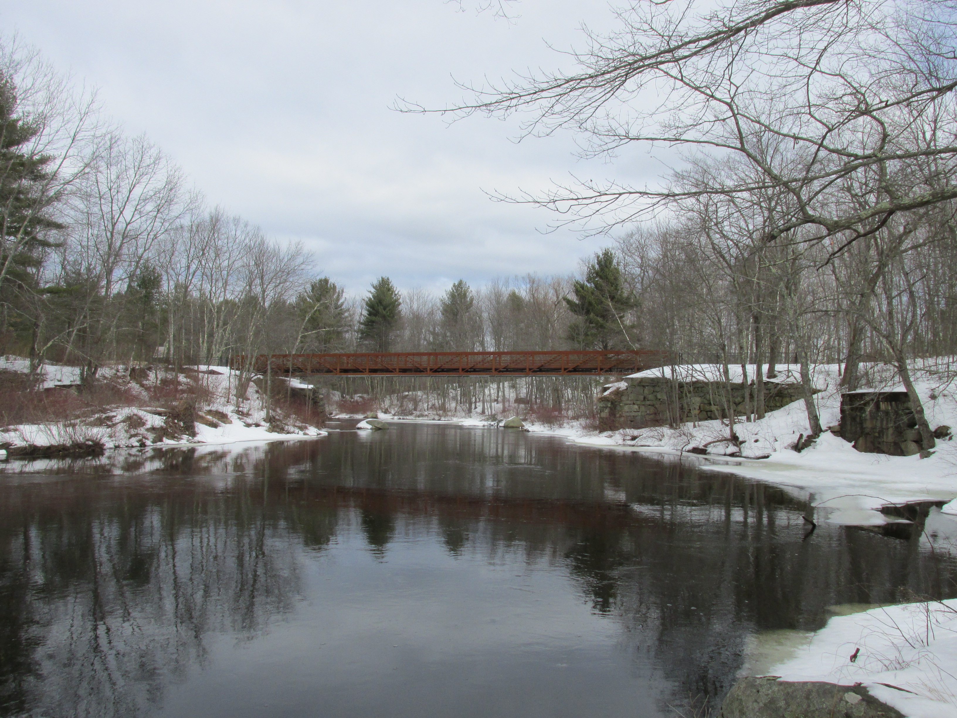 Pedestrian bridge and abutments of the County Farm Bridge, Dover New Hampshire